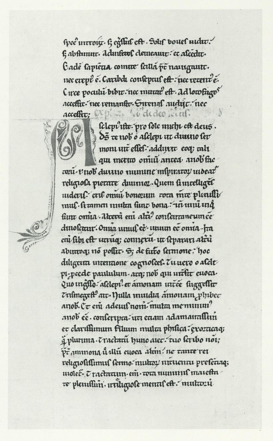 The beginning of the Hermetic dialogue Asclepius in the manuscript Florence, Biblioteca Medicea Laurenziana, San Marco 341, fol. 57v.